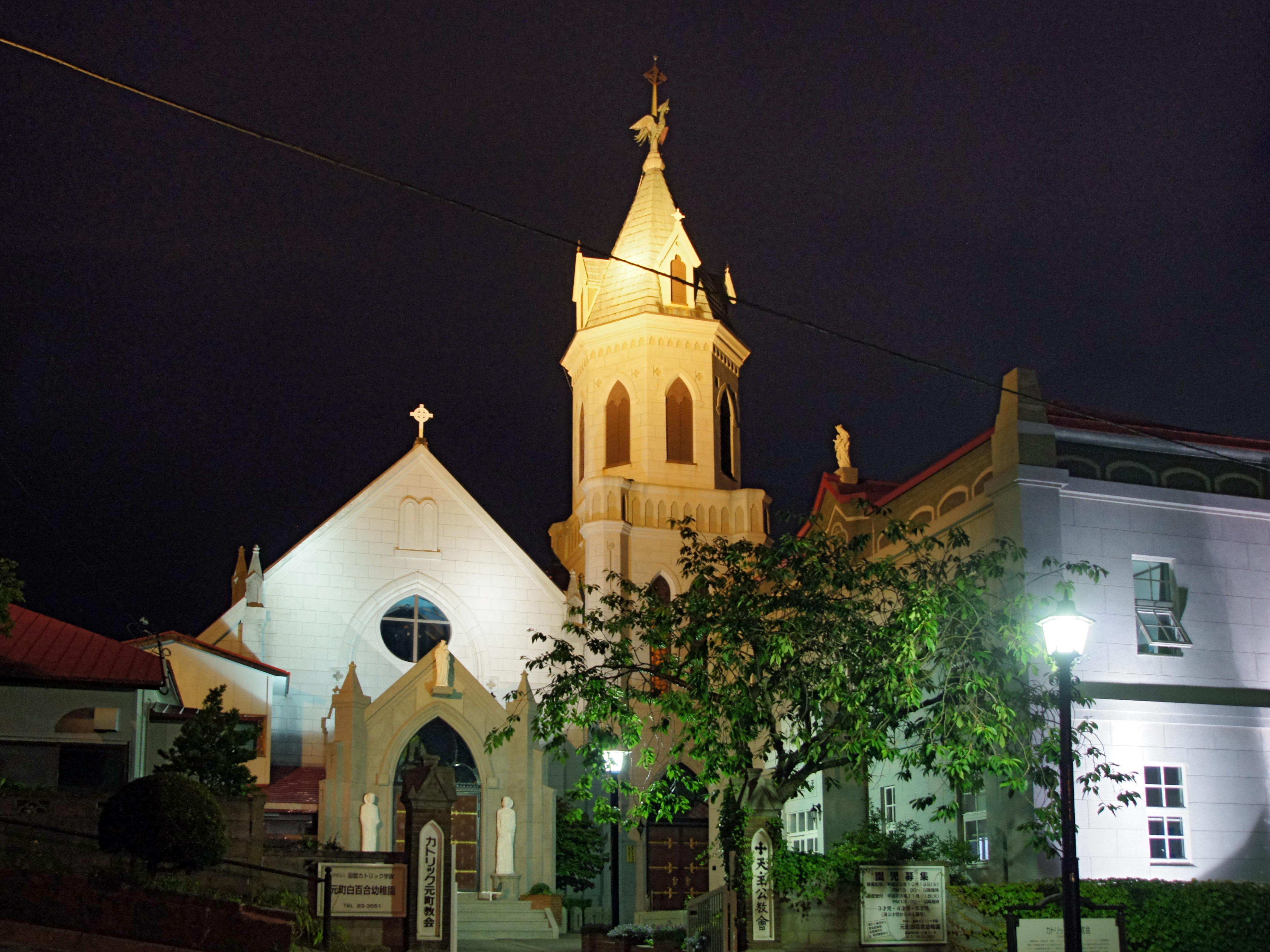 Motomachi Catholic Church in Hakodate, Hokkaido prefecture, Japan